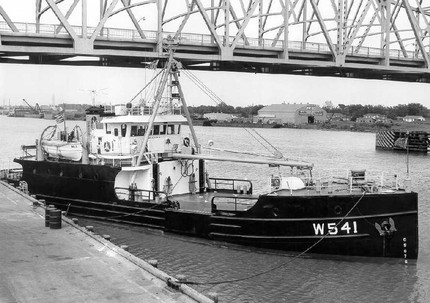 The United States Coast Guard ship White Alder